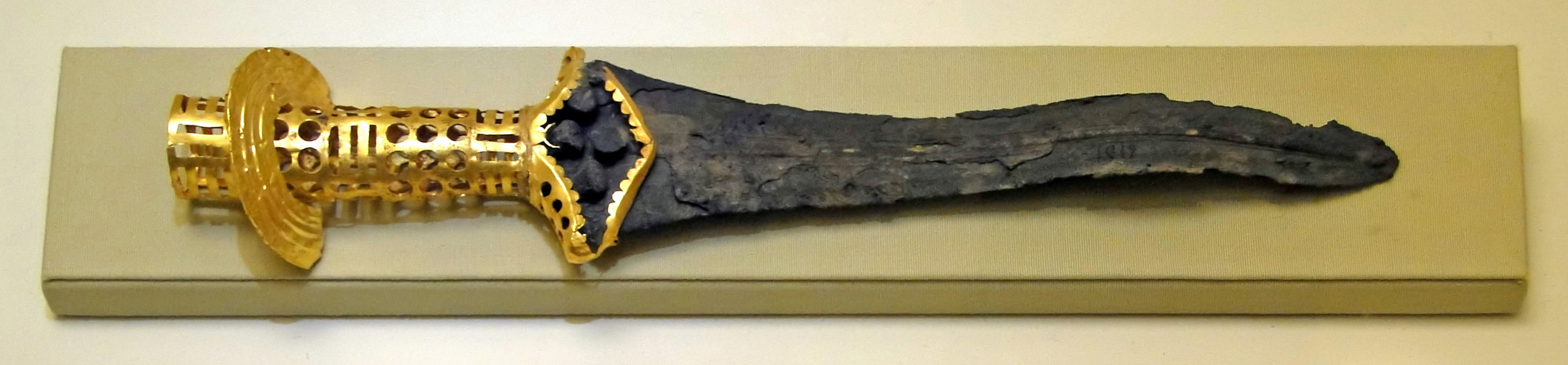 Bronze dagger with a hilt-sheath made of cutout gold sheet from Malia (1800-1700 BC), Heraklion Archaeological Museum, Crete, Greece